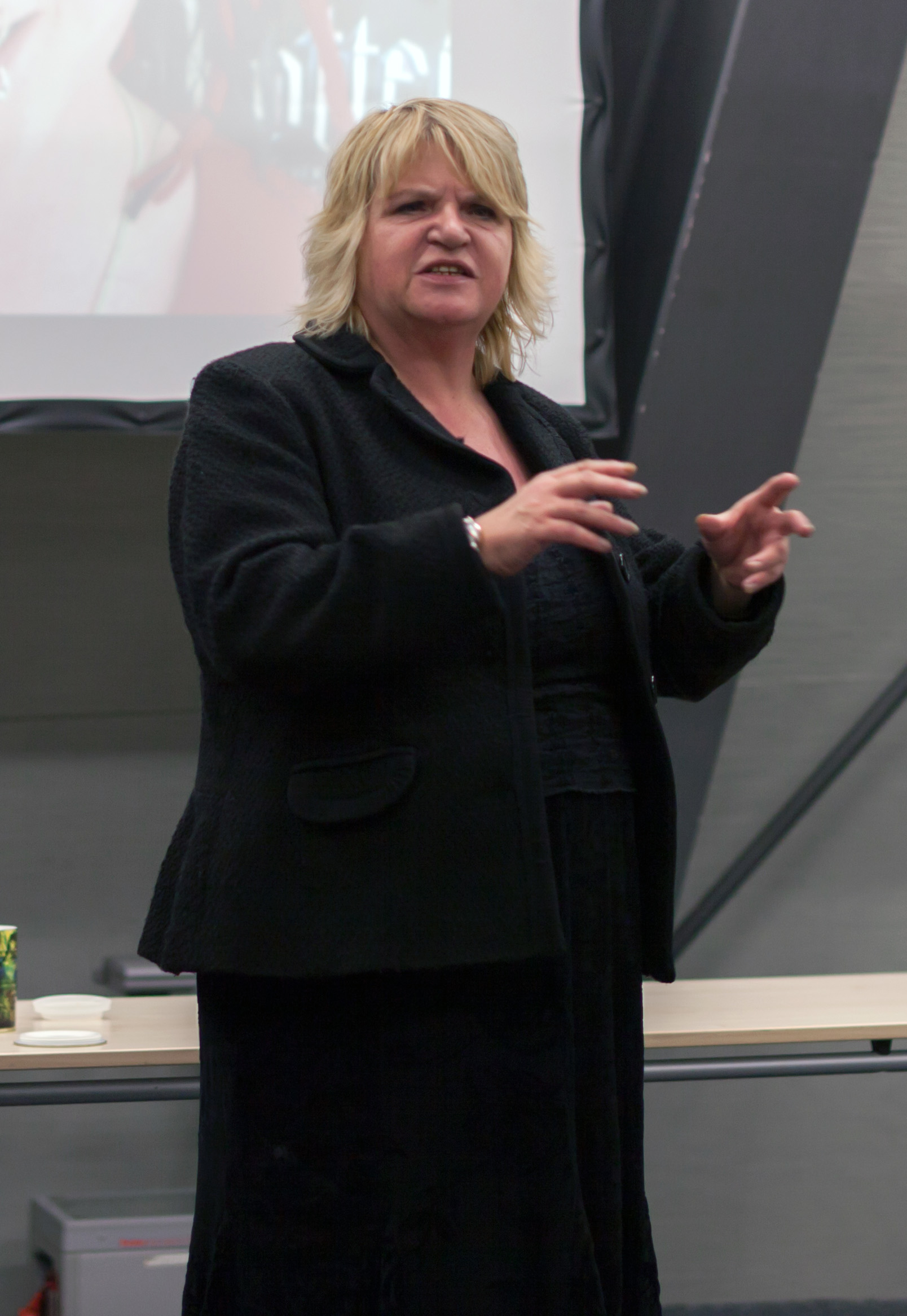 Silvia Lancaster — mother of Sophie Lancaster and leader of Sophie Lancaster Foundation.